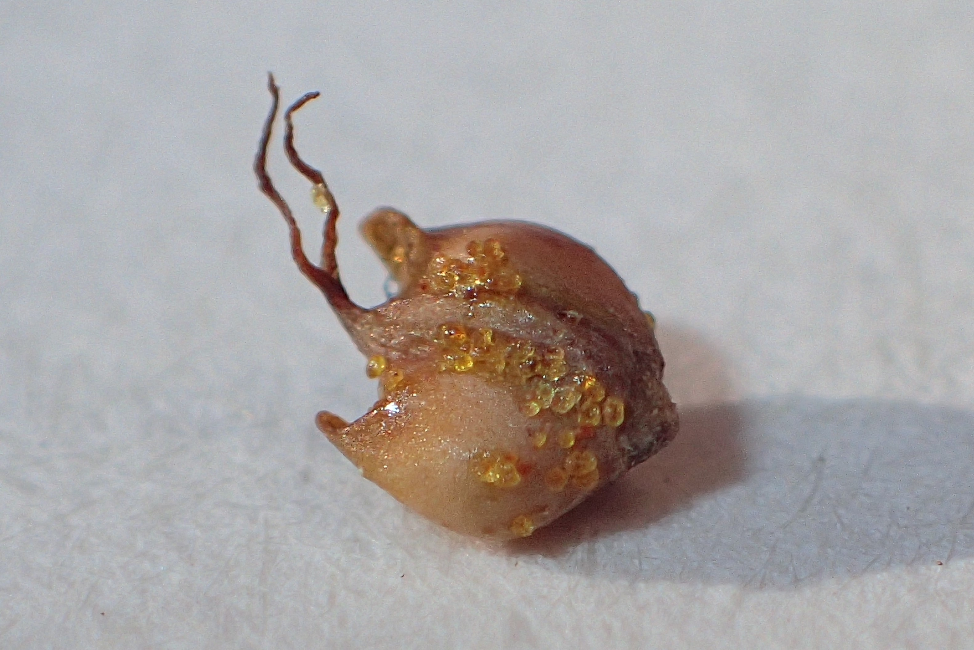 Myrica gale, fruit. Plant growing in Glinna Arboretum near Szczecin, NW Poland